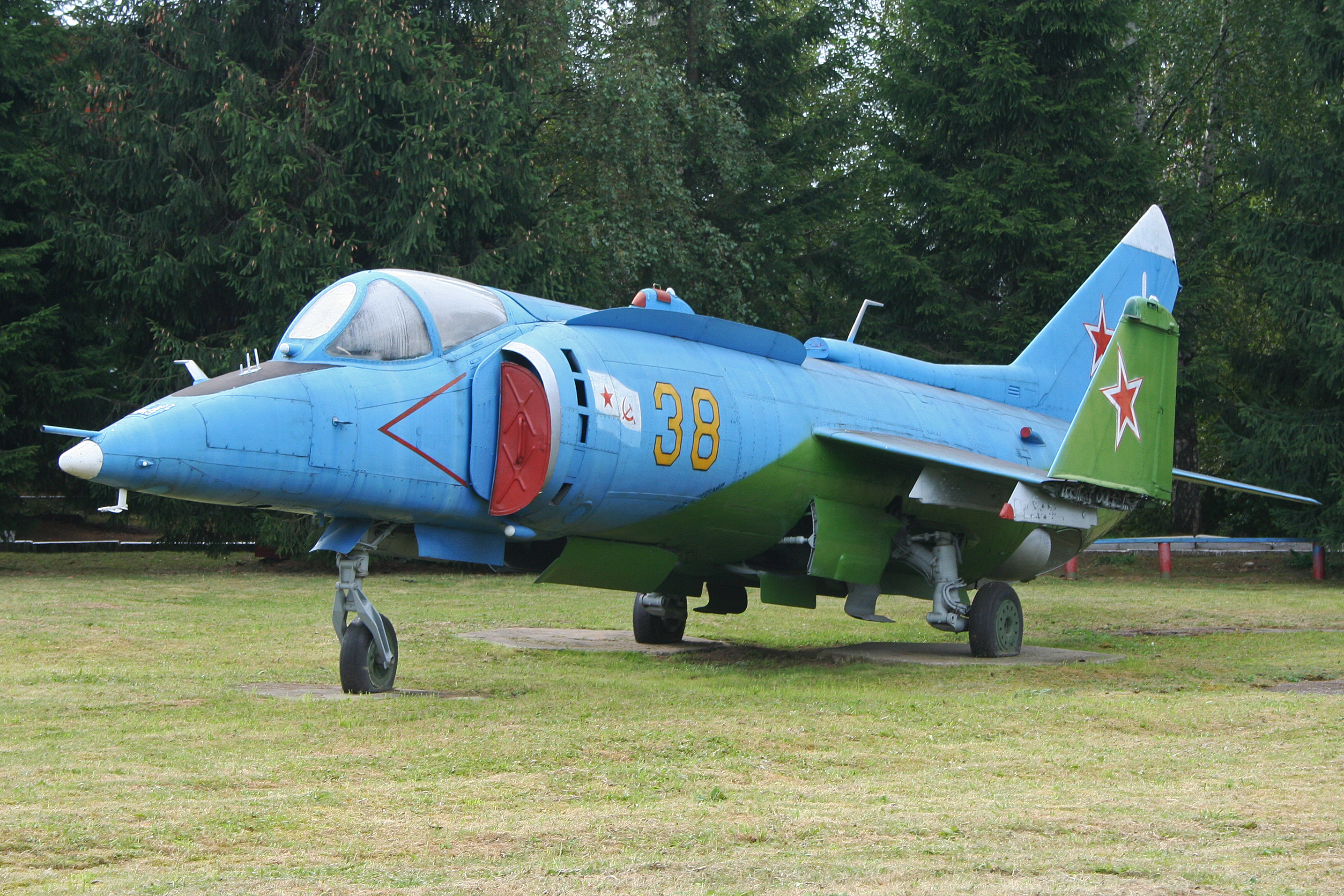 Previous bort code was '29 yellow'. This has been changed to reflect the type. On display outside the 121st Aircraft Repair Plant at Kubinka, Russia. 11-8-2012